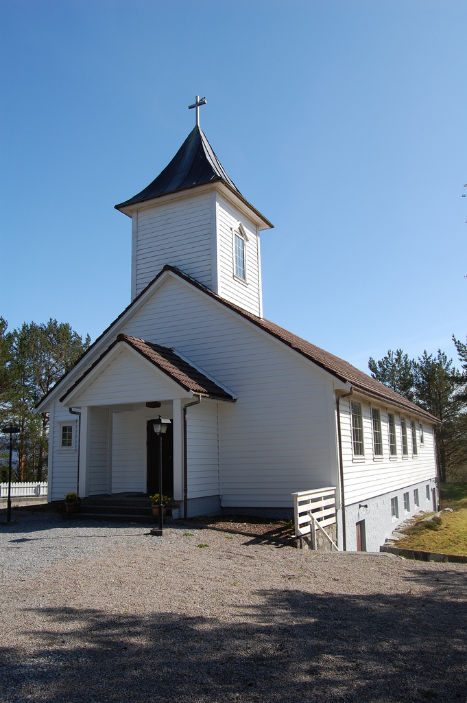 Hjelmås chapel in Lindås, Hordaland, Norway